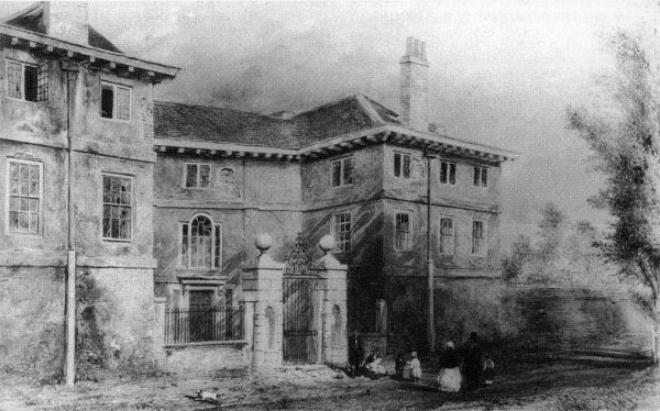 over 120 year old picture of Cromwell House, Mortlake.Rodolph (talk) 00:18, 31 December 2008 (UTC)